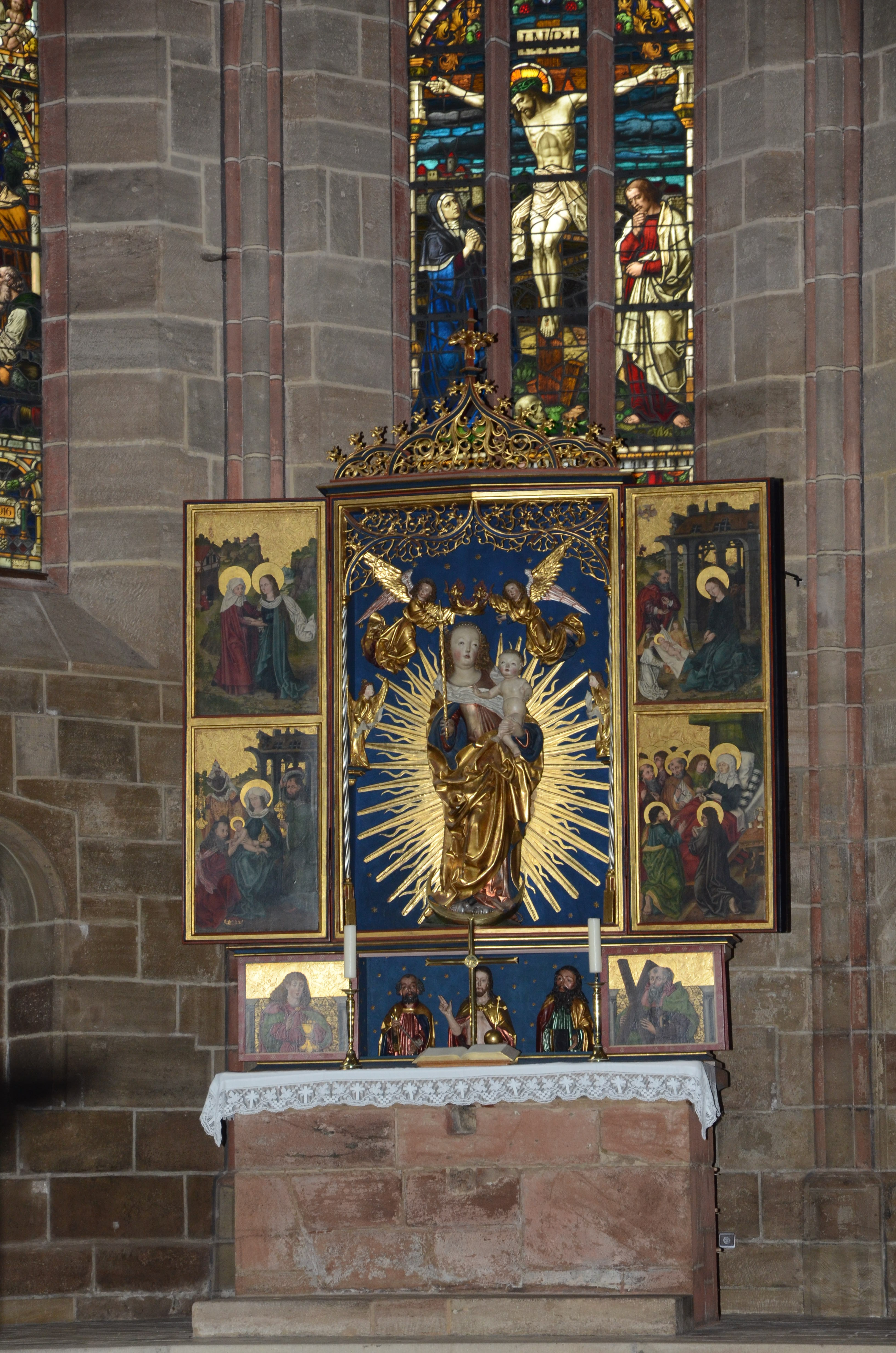 High altar in Feuchtwangen church (Bavaria), the Virgin Mother as the queen of heaven on its crescent moon, erected in 1484, attributed to Michael Wolgemut